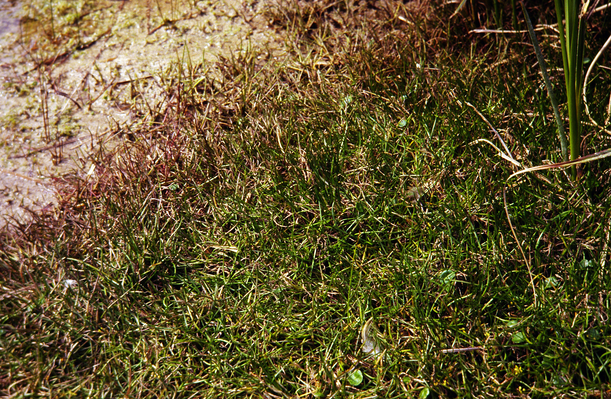 Aspect of Littorella uniflora, a rare species of aquatic plant (Plantaginaceae).